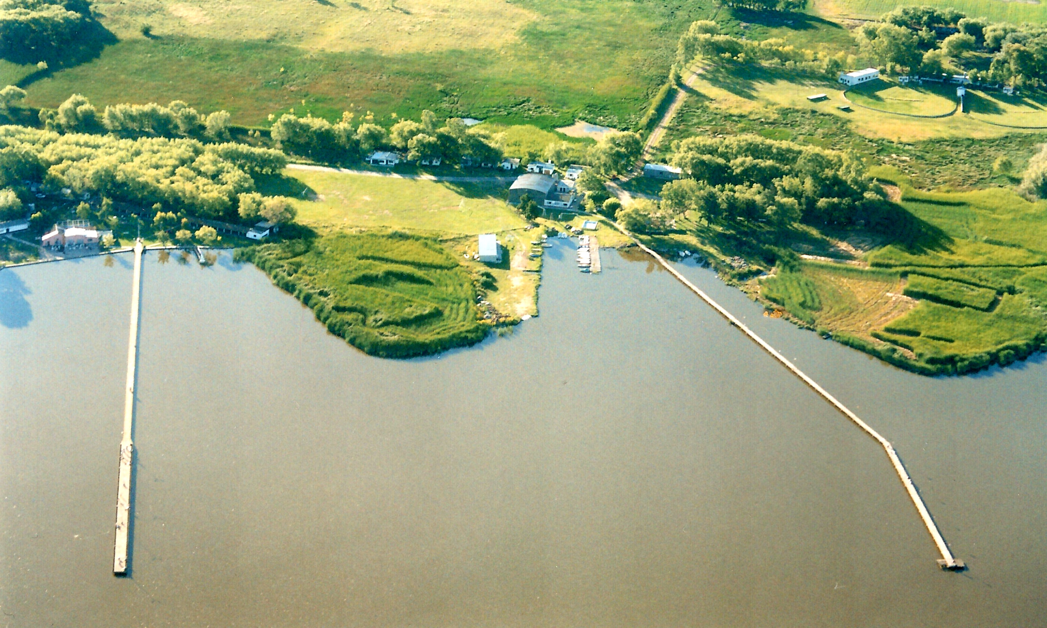 Aerial photograph of Laguna El Carpincho, in Junín, Argentina. At left, the Club de Pescadores (Fishermen Club) and at the middle the Club de Cazadores (Hunters Club).